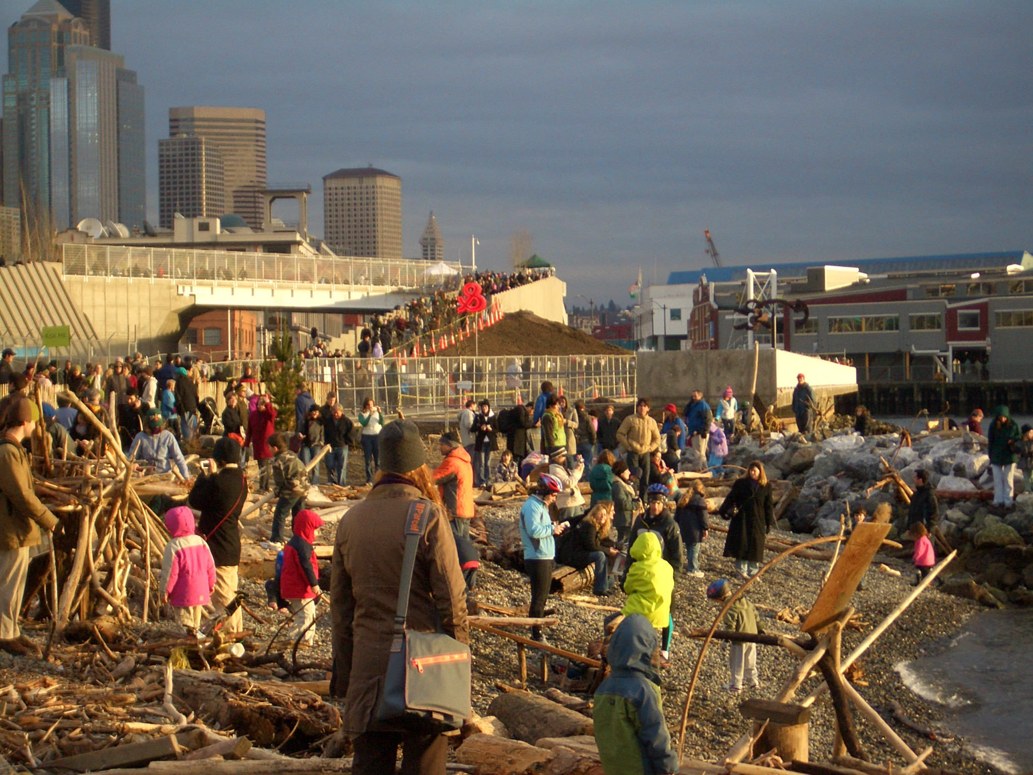 At the grand opening of Olympic Sculpture Park. Note the rotating ampersand, the centerpiece of the "Love & Loss" sculpture